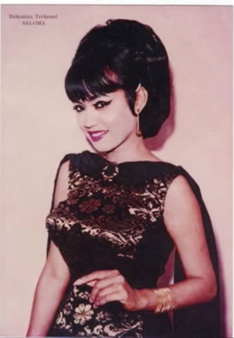 saloma in black